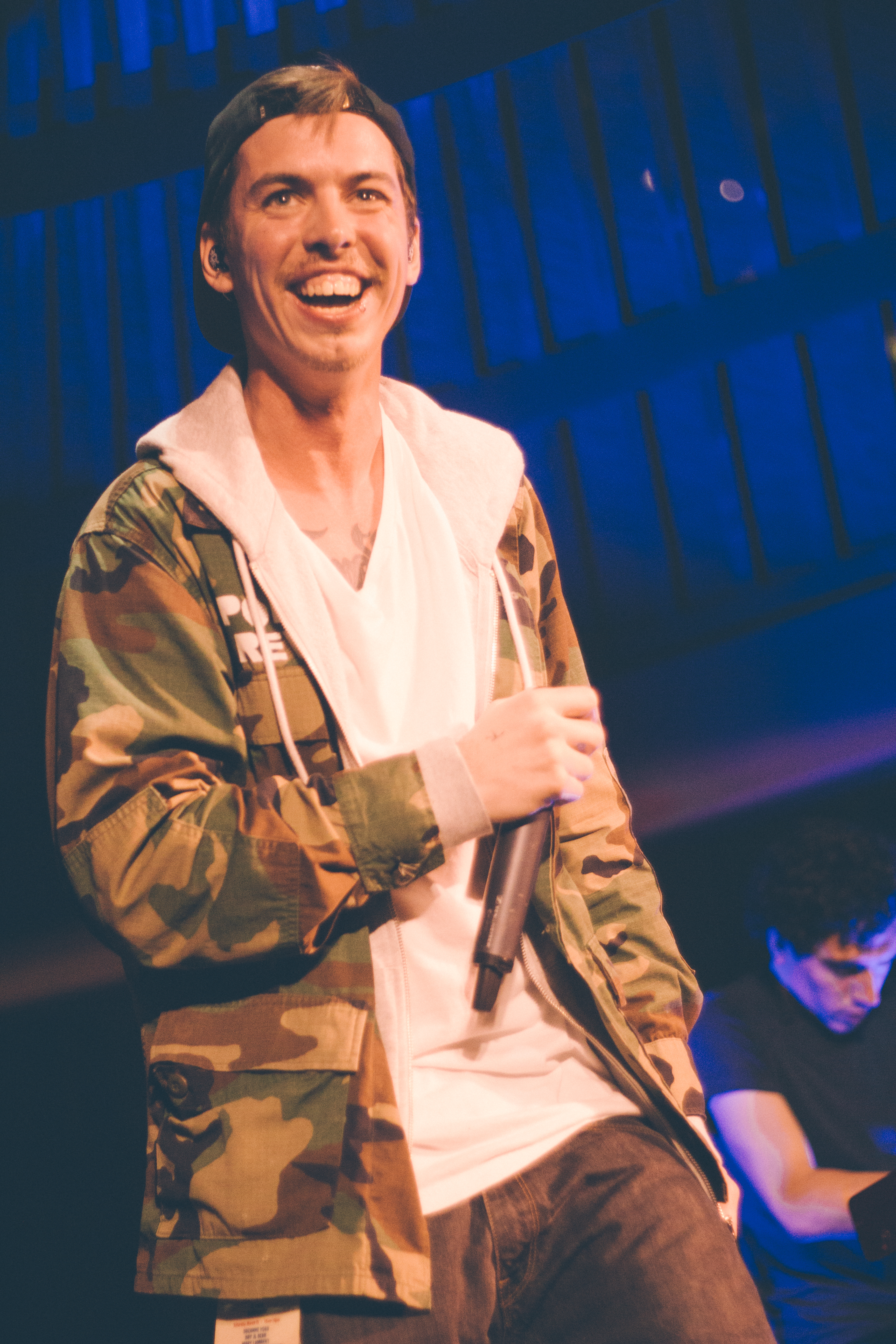 Grieves at Quantum Collective's SXSW Invasion in 2014